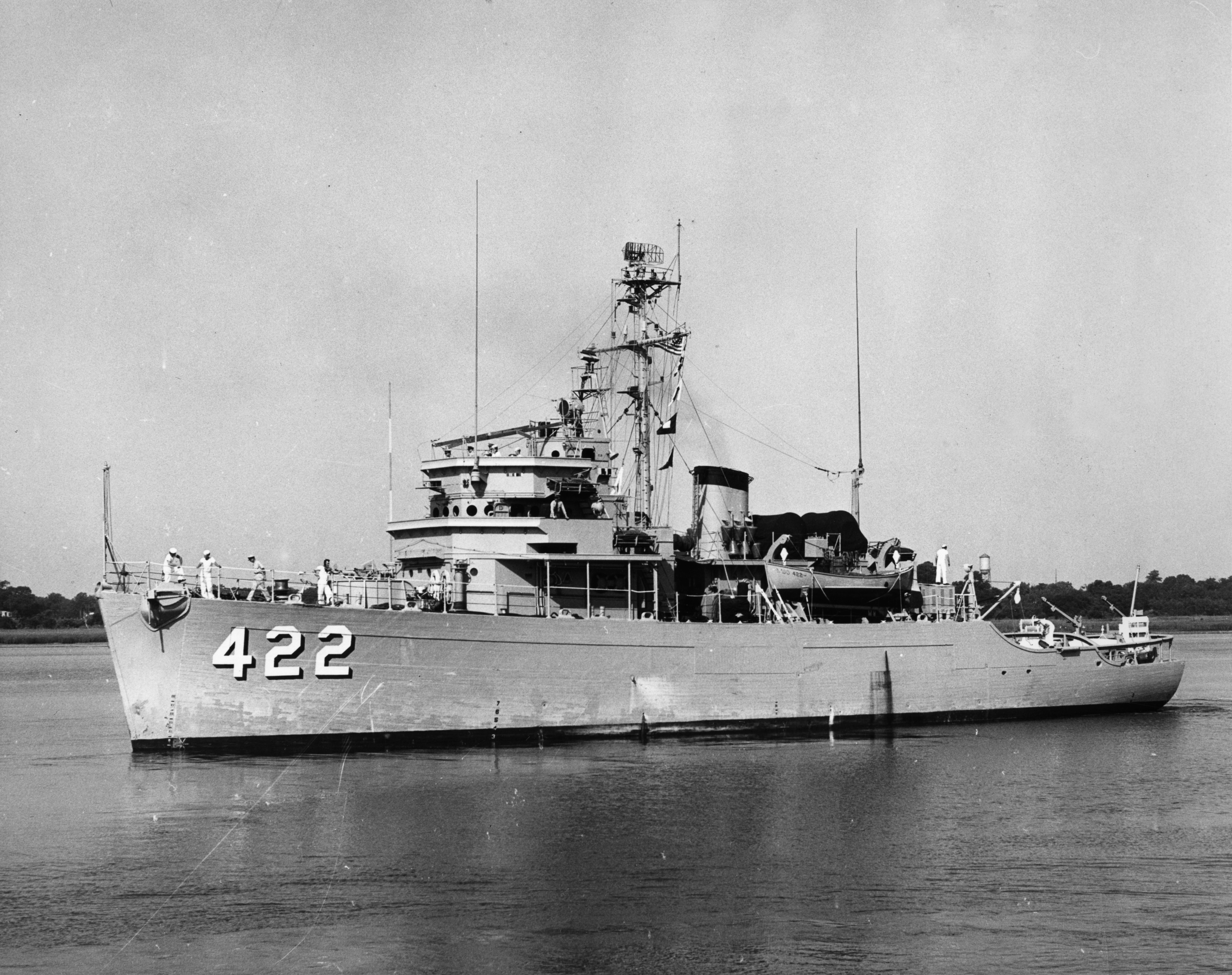 The U.S. Navy ocean minesweeper USS Aggressive (MSO-422) underway, circa in 1962.